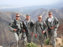 SKIP care package recipients in Afghanistan